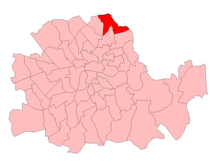 A map of Hackney North constituency within the London County Council area, as it existed from 1918 to 1949.